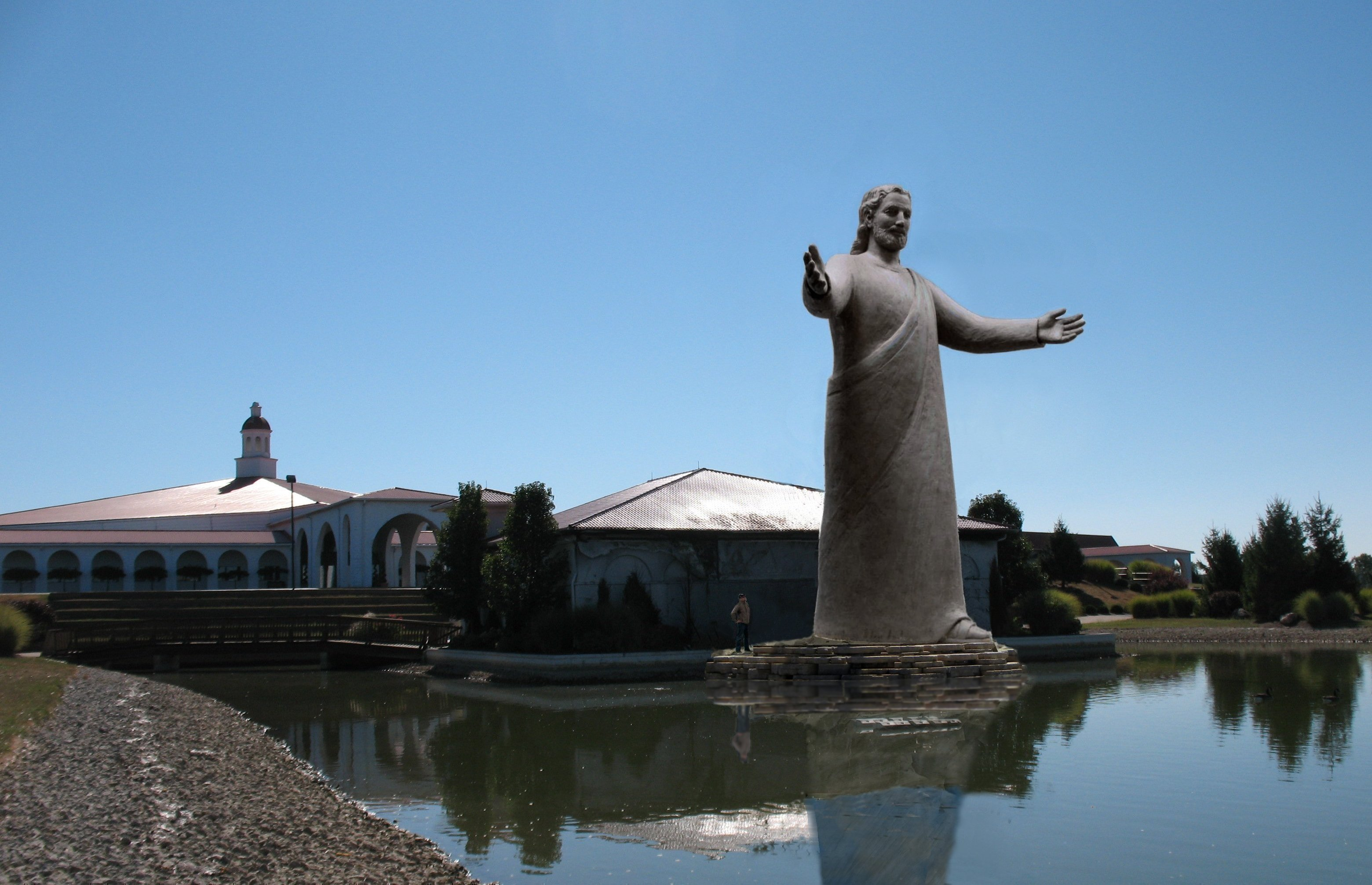 This is artist Tom Tsuchiya's digital rendering of the statue.